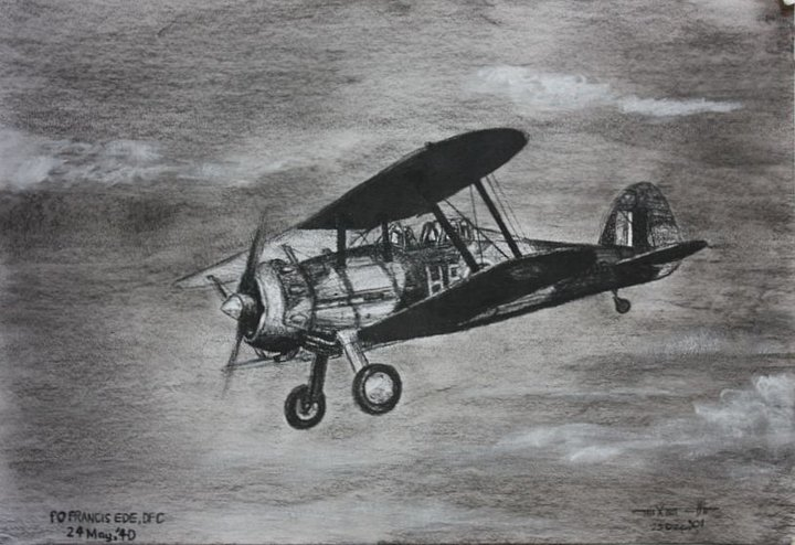 Artist's impression (by Seán Pòl Ó Creachmhaoil) of the Gloster Gladiator flown by Bermudian Flying Officer Herman Francis Grant "Baba" Ede, DFC, during the Battle of Norway. Ede was the first Bermudian killed in the Second World War, dying along with most aboard the aircraft carrier, HMS Glorious, when she was sunk while evacuating his 263 Squadron from Norway on 8 June, 1940. Ede was one of numerous Bermudians who served as aircrew in the Royal Air Force, Fleet Air Arm, and the Royal Canadian Air Force during the war (see Royal Air Force, Bermuda, 1939-1945).